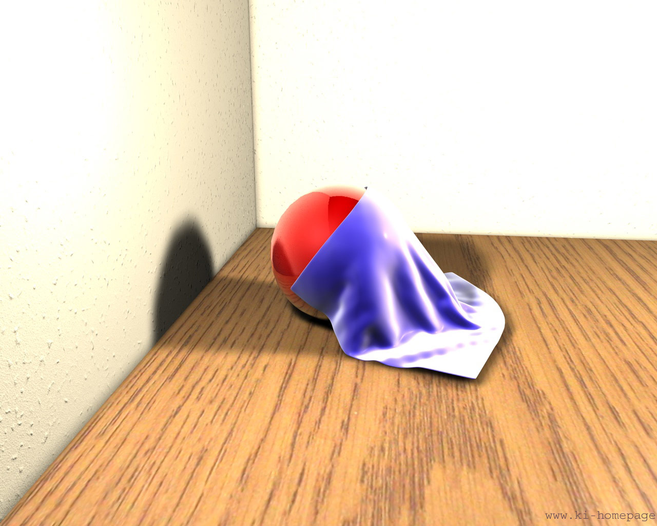 Cinema 4d with Cloth module